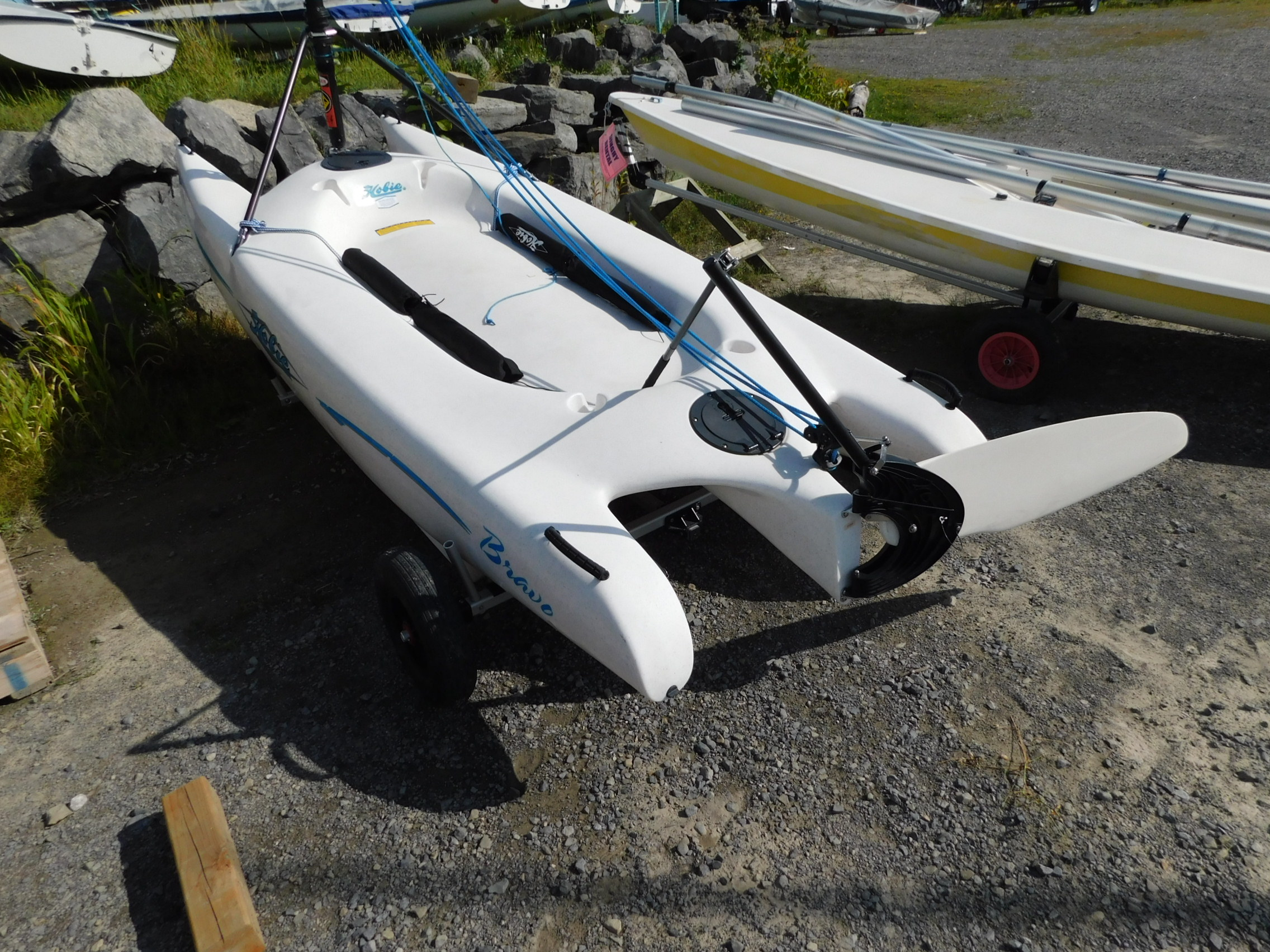 Hobie Bravo catamaran sailboat overview of hull. The boat in the background is a Laser dinghy.